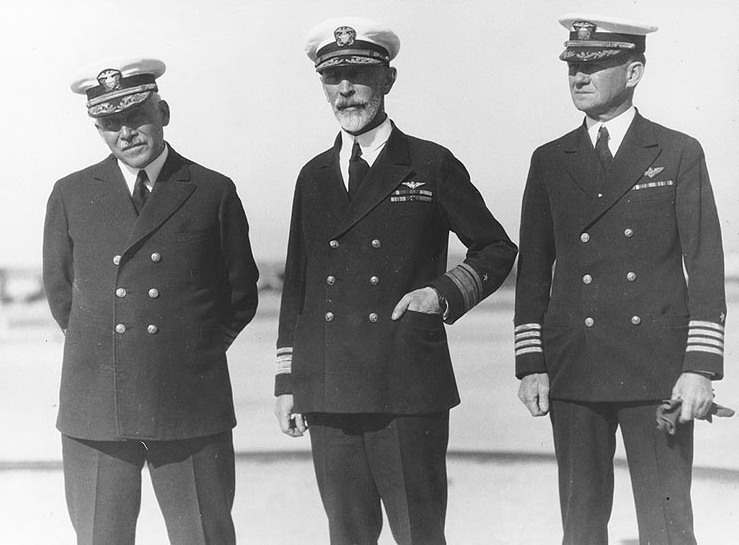 Admiral William V. Pratt, USN, Commander in Chief, Battle Fleet (left); with Rear Admiral Joseph M. Reeves, USN, Commander, Aircraft Squadrons, Battle Fleet (center); and Captain Frank R. McCrary, USN, Commanding Officer, Naval Air Station, San Diego (right) at Naval Air Station, North Island, San Diego, California.